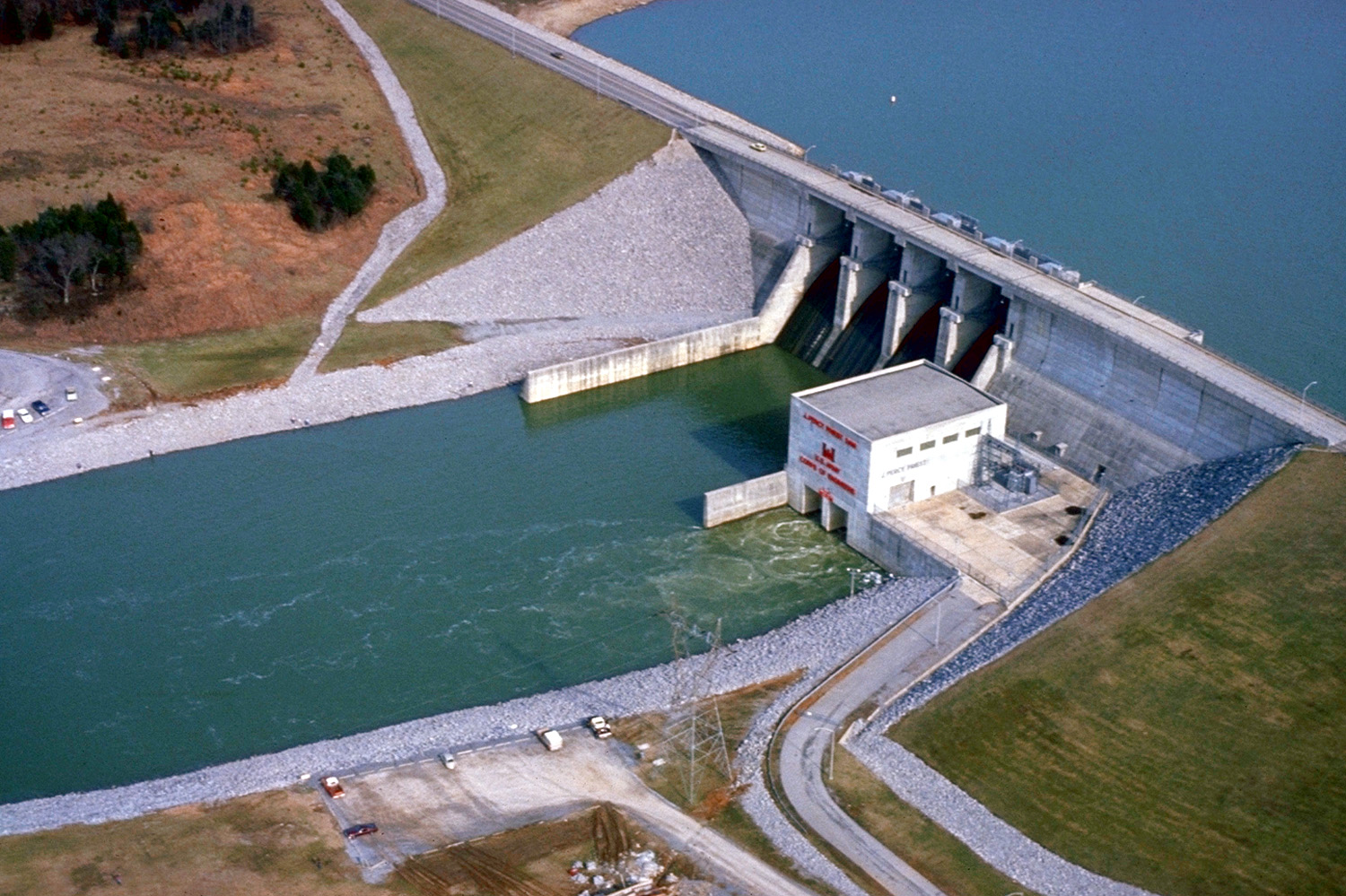 J. Percy Priest Dam on the Stones River near Nashville, Tennessee, USA. The dam forms J. Percy Priest Lake. The dam provides flood control and has a relatively small 28-MW hydroelectric plant.